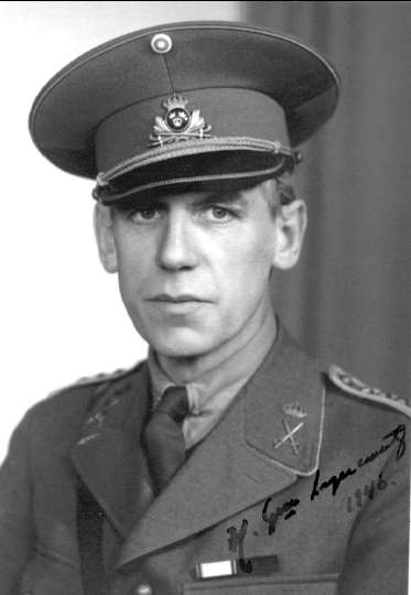 Portrait of Henric Lagercrantz. Cavalry captain in the Life Regiment Hussars (K 3) in Skövde, Head of the Swedish Army Riding School at Strömsholm, regimental commander of Norrland Dragoon Regiment (K 4).